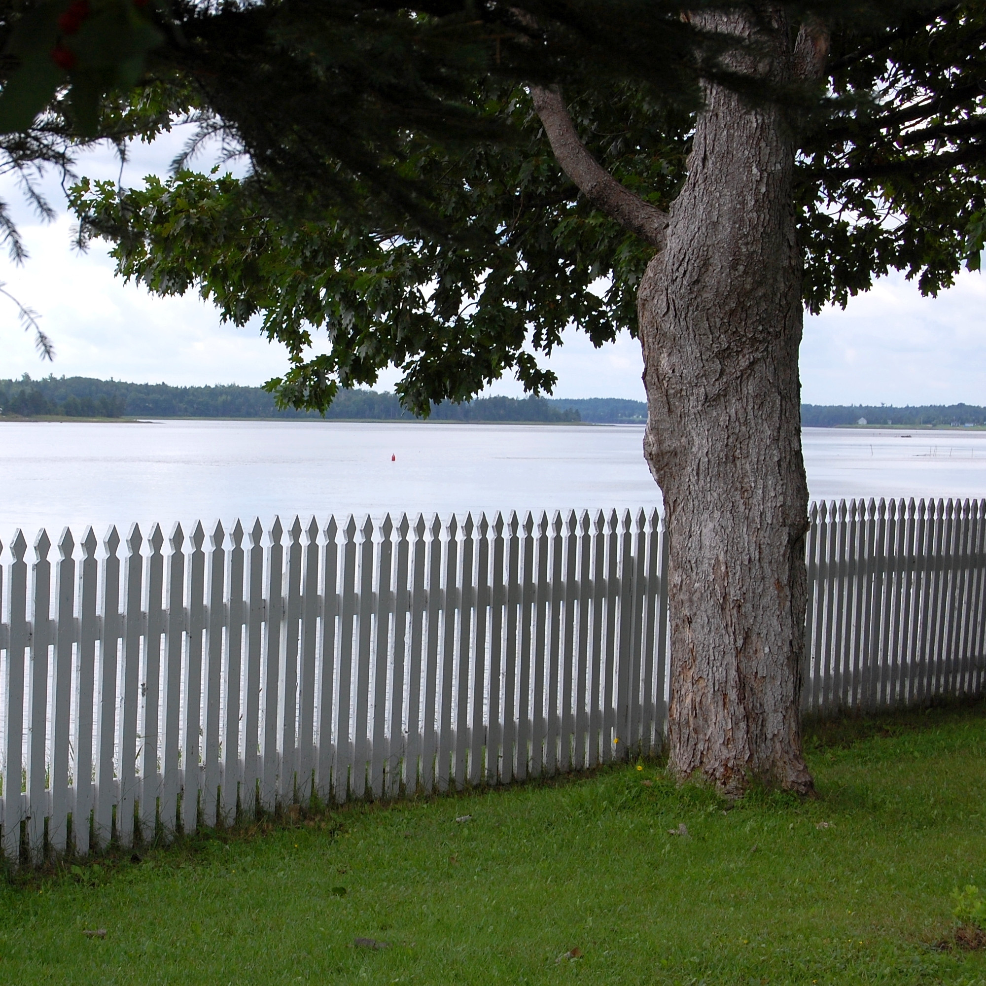 The Richibucto River as seen across the fence at Andrew Bonar Law home, Rexton New Brunswick